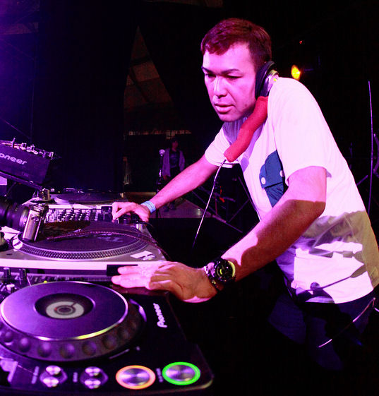 DJ Daishi Dance performing at the Hibiki Music Festival 2009 at Okayama